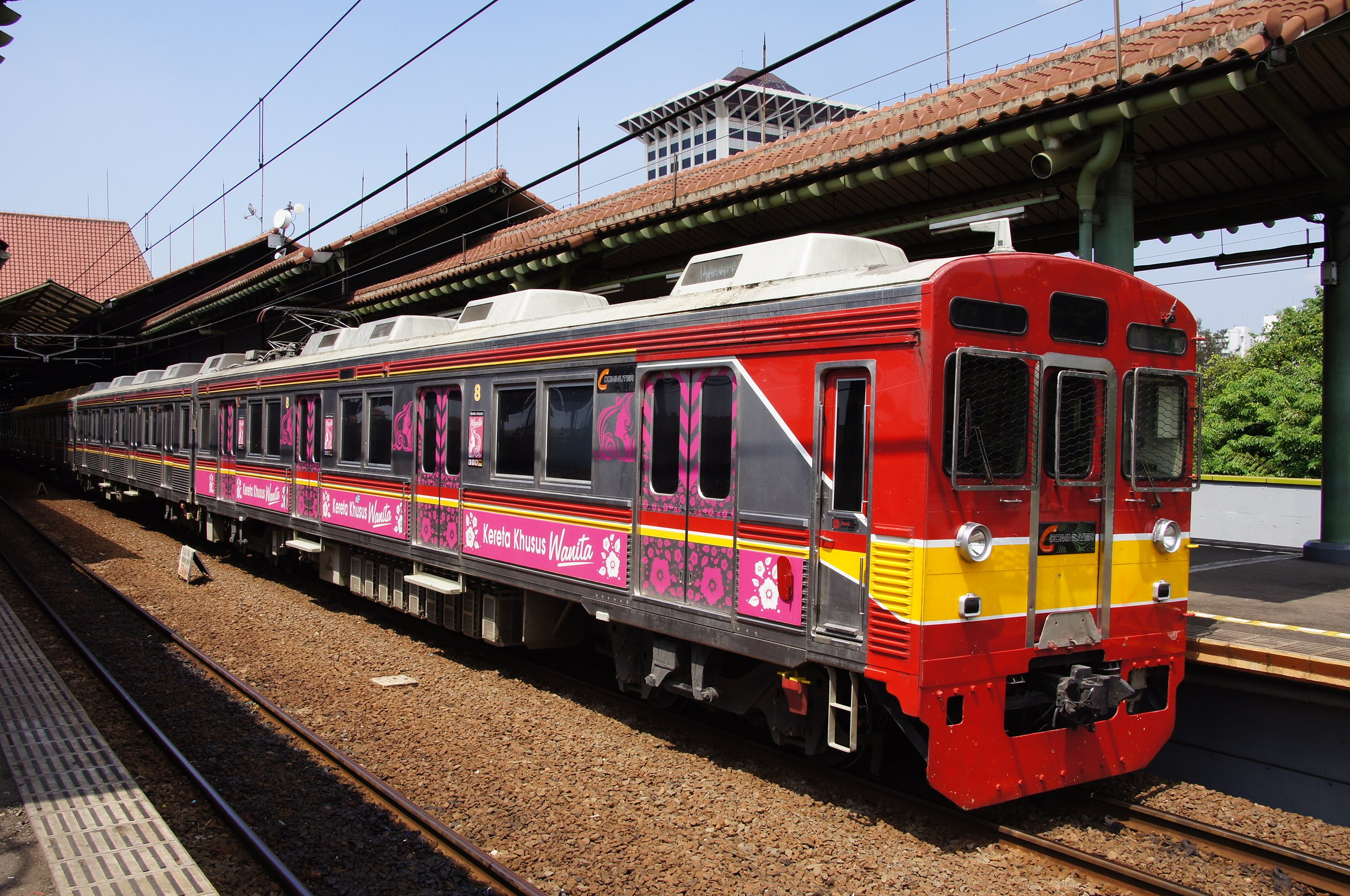 Former Tokyu 8500 series 8-car EMU at Gambir Station in Jakarta on a KRL Jabotabek commuter service